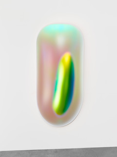 Gisela Colon, "Ultra Spheroid (Gold Aqua)", 2017, blow-molded acrylic, 90x42x12 inches, 229x107x33 cm, Perez Art Museum Miami (PAMM), seen in natural lighting.